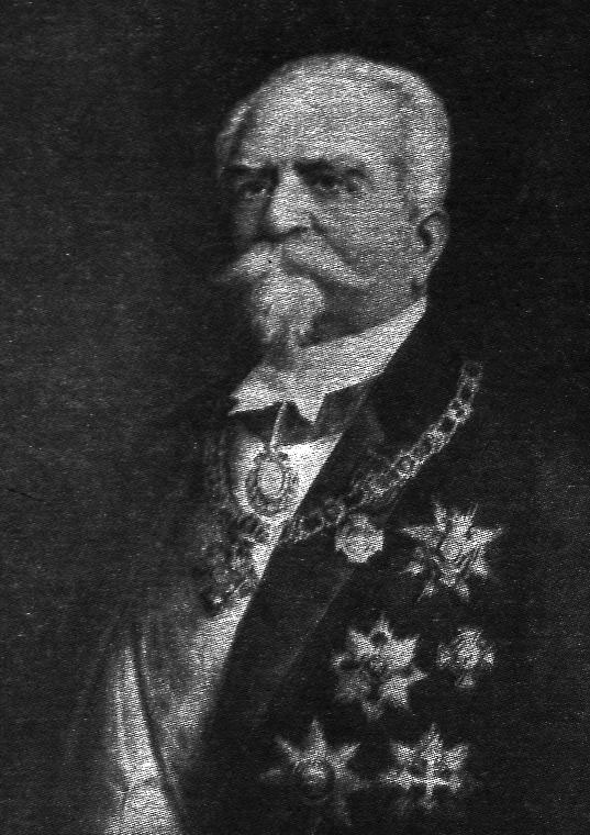 Prime minister George (Gheorghe) Manu of RumaniaRomână: Președintele Consiliului de Miniștri George Manu (alternativ Gheorghe), cu colanul unui ordin